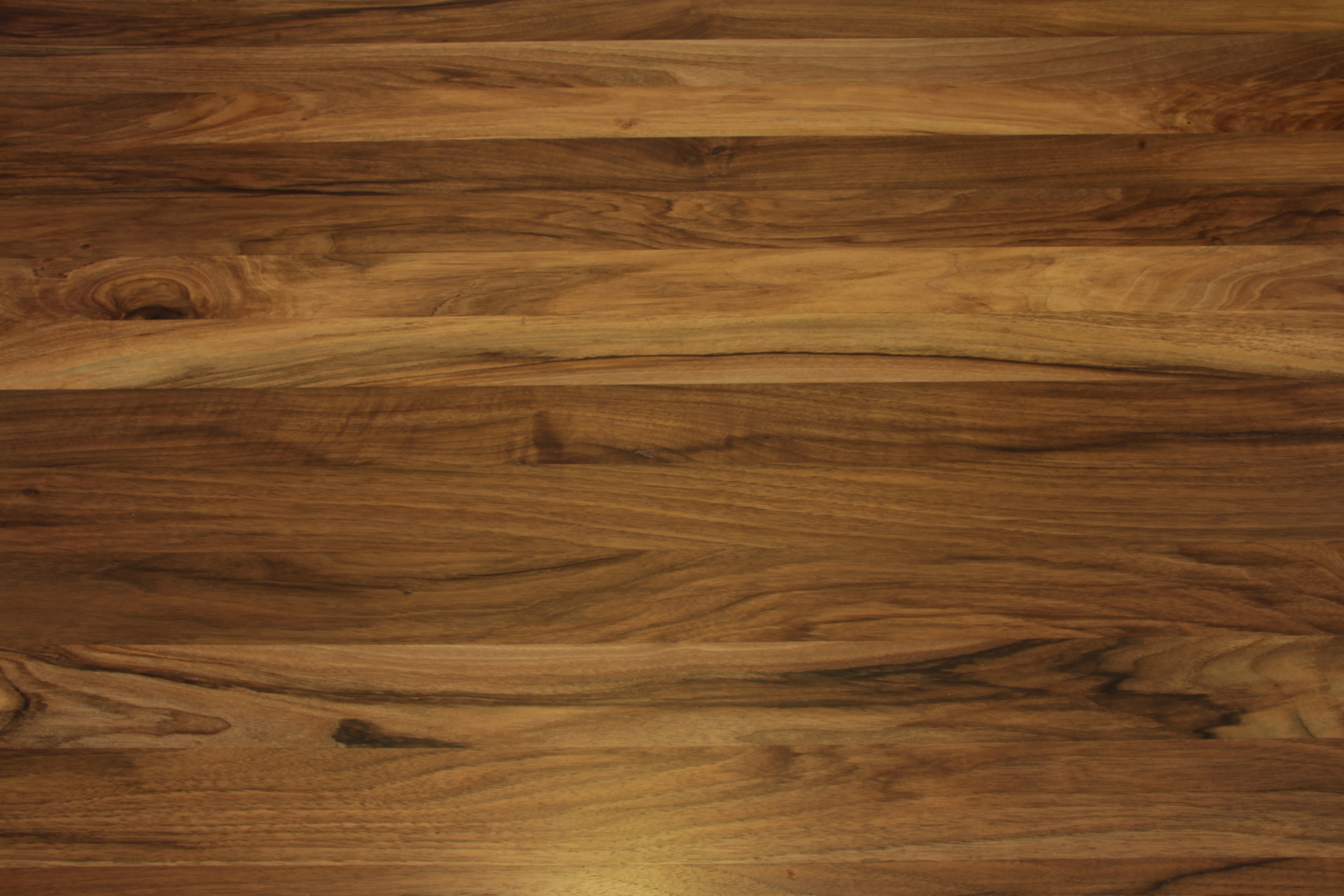 Surface of a living room table made of solid, european walnut wood